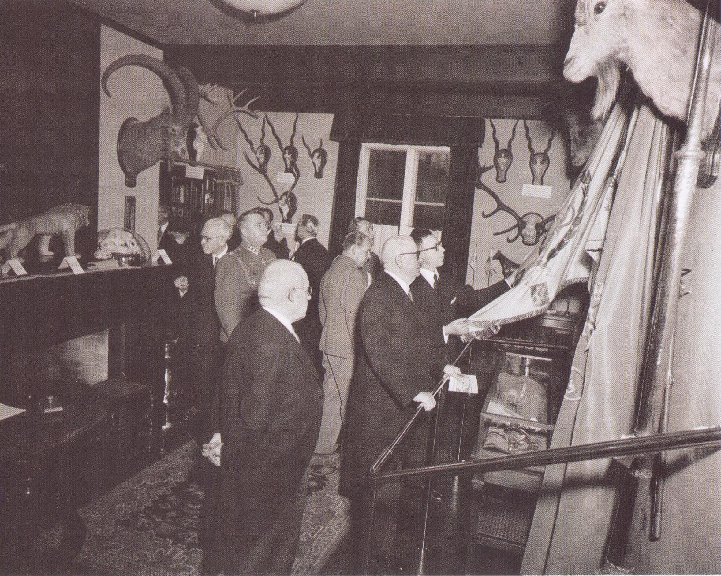 Mannerheim museum's opening day 3 November 1951.